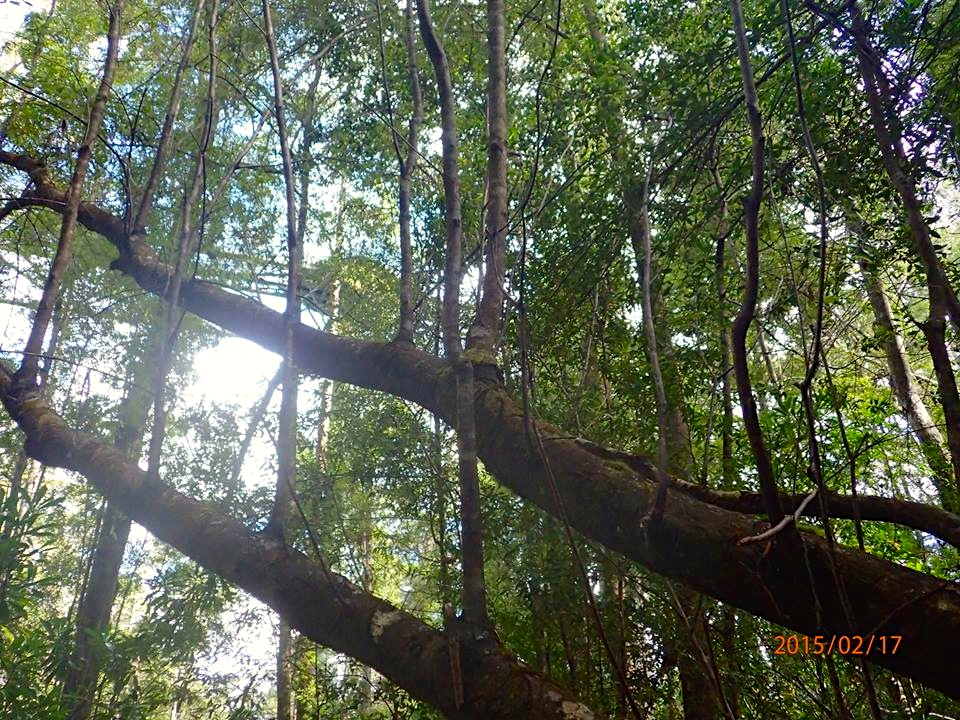 Growth habit of primary shoot benting which vegetative reproduces vertical shoots.